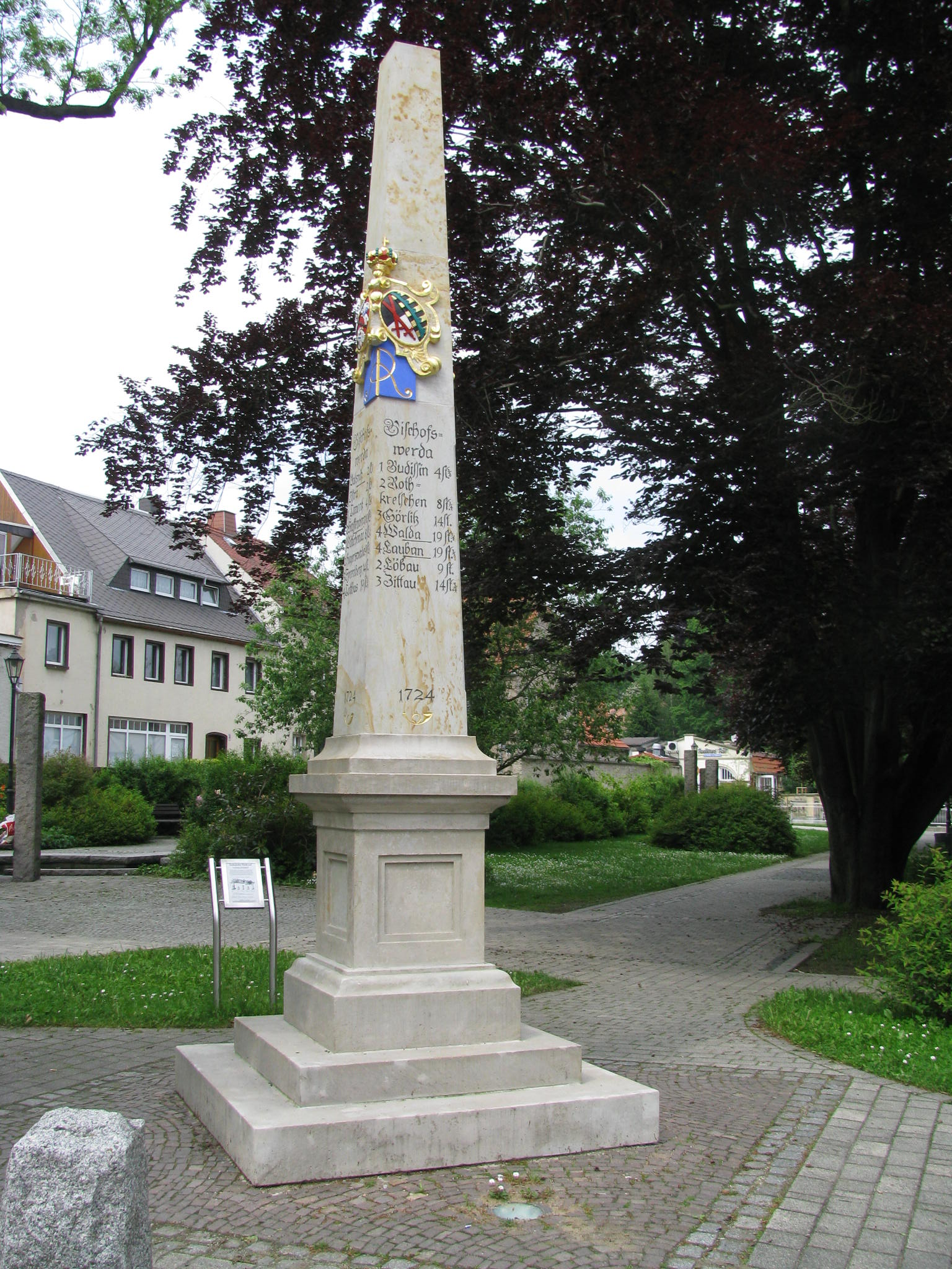 Description Bischofswerda Date29 May 2010SourceOwn workAuthorWikiAnikaPermission (Reusing this file)